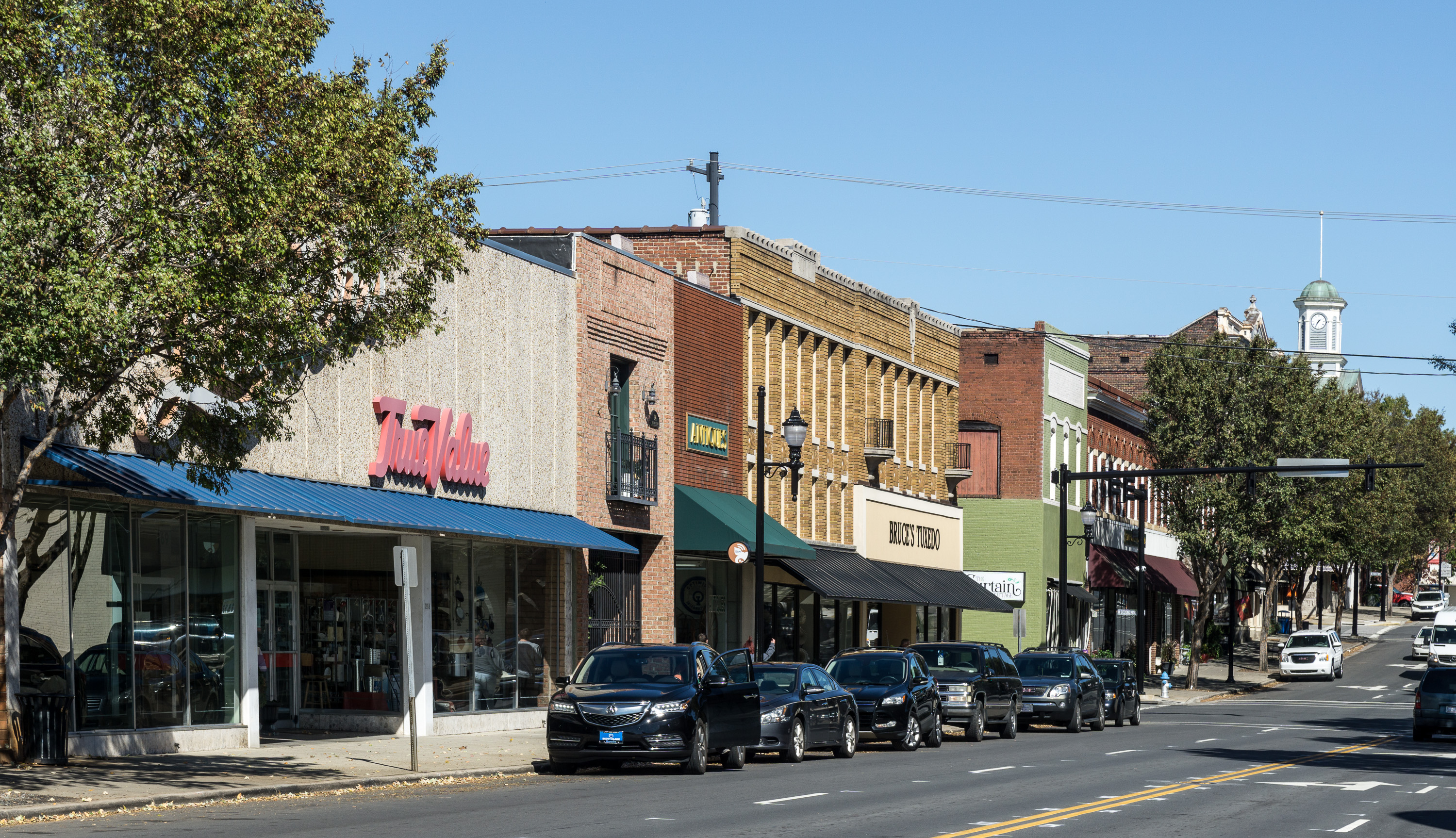 Looking down South Main Street in Lexington, North Carolina.